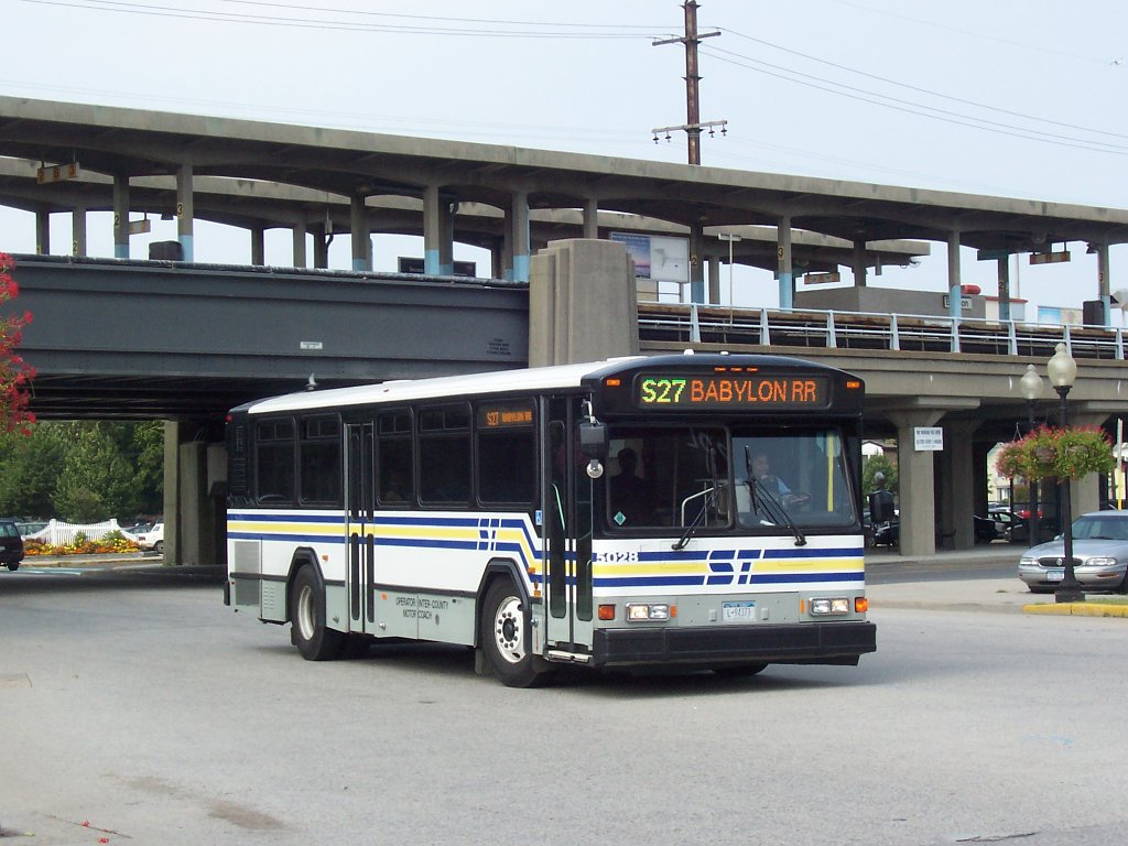 Suffolk Transit Gillig #5028 in Babylon, NY, on the S27.